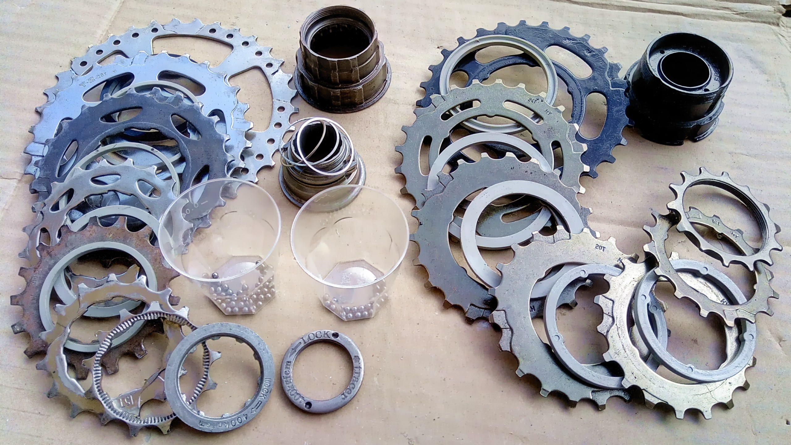 Disassembled free wheels, left completely disassembled (13-15-17-19-24-28-34 combination of various changes), right at the sprockets (14-16-18-20-22-24-28), you can see the different solutions for the anchoring of the sprockets with the free wheel.